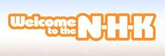 Crop of the title from Welcome to the N.H.K poster